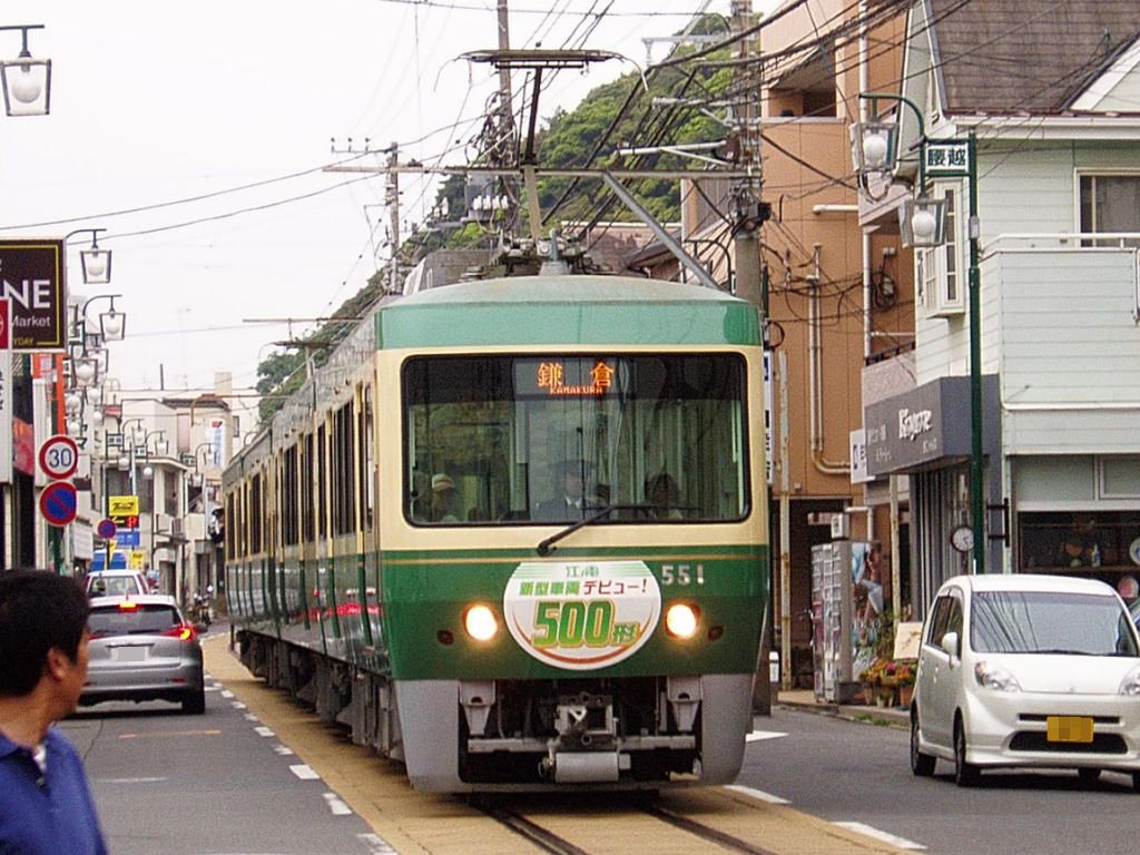 Enoshima Electric Railway type New 500